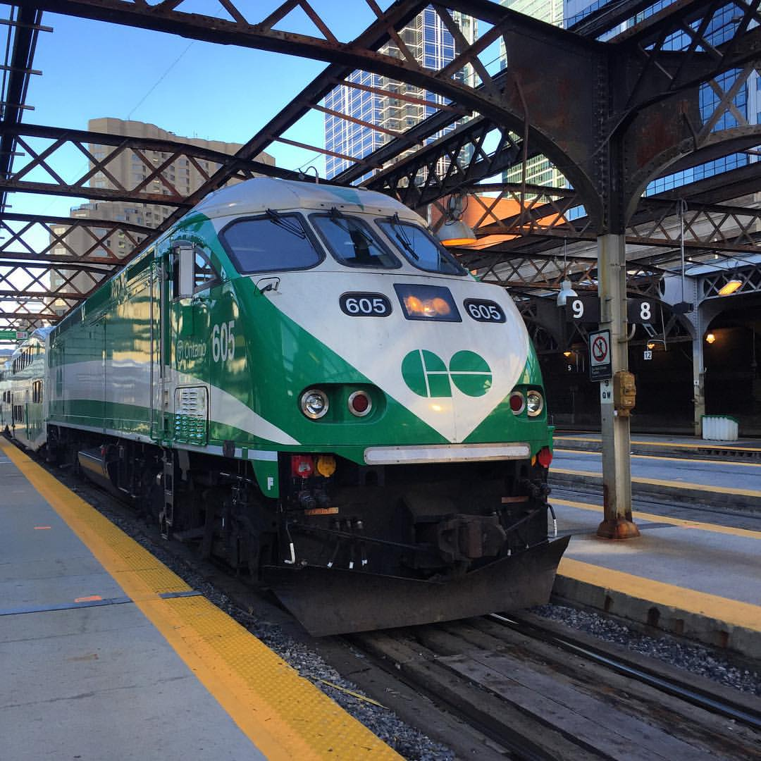 GO Transit 605 at Union Station in Toronto